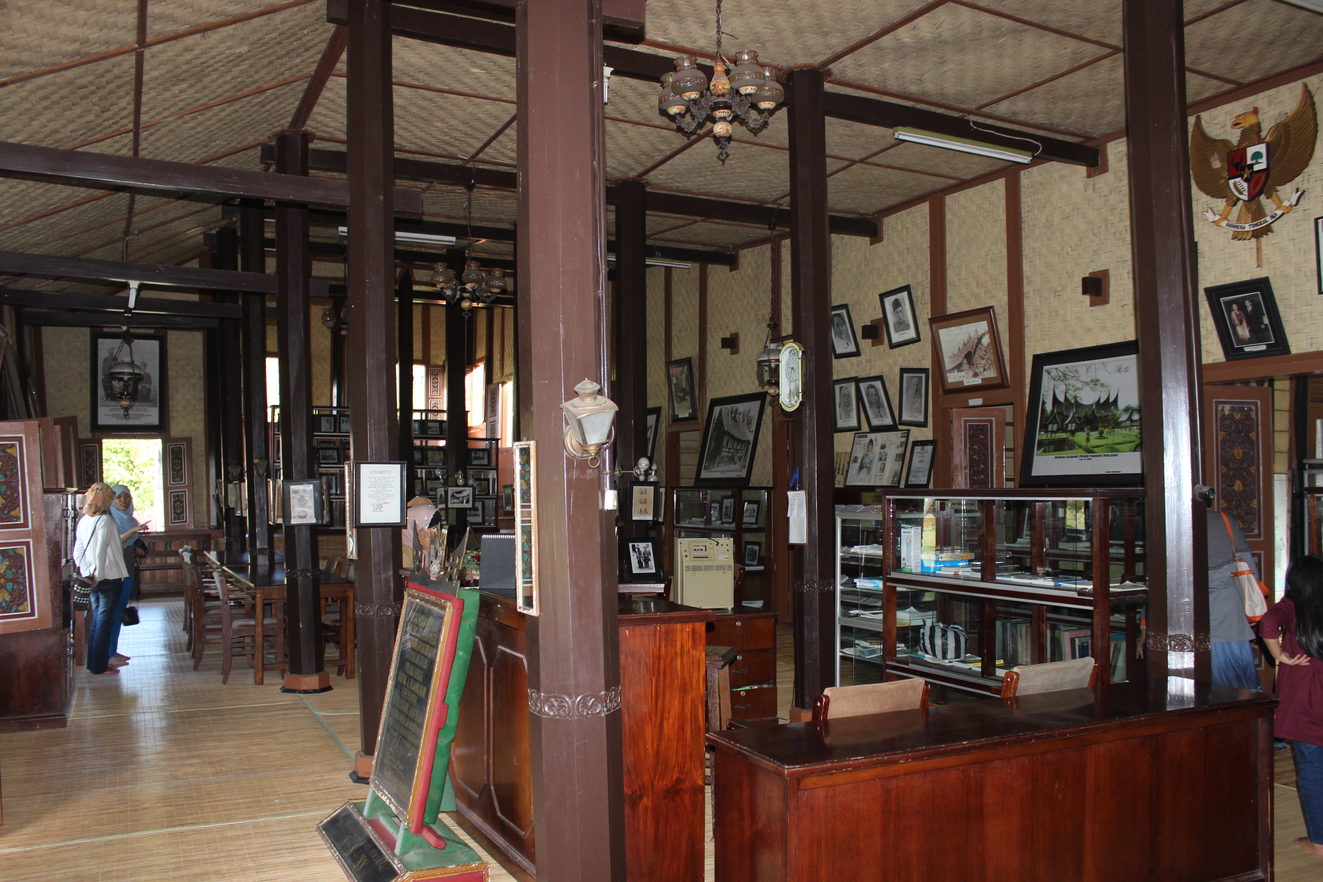 The inside part of PDIKM in Padang Panjang.